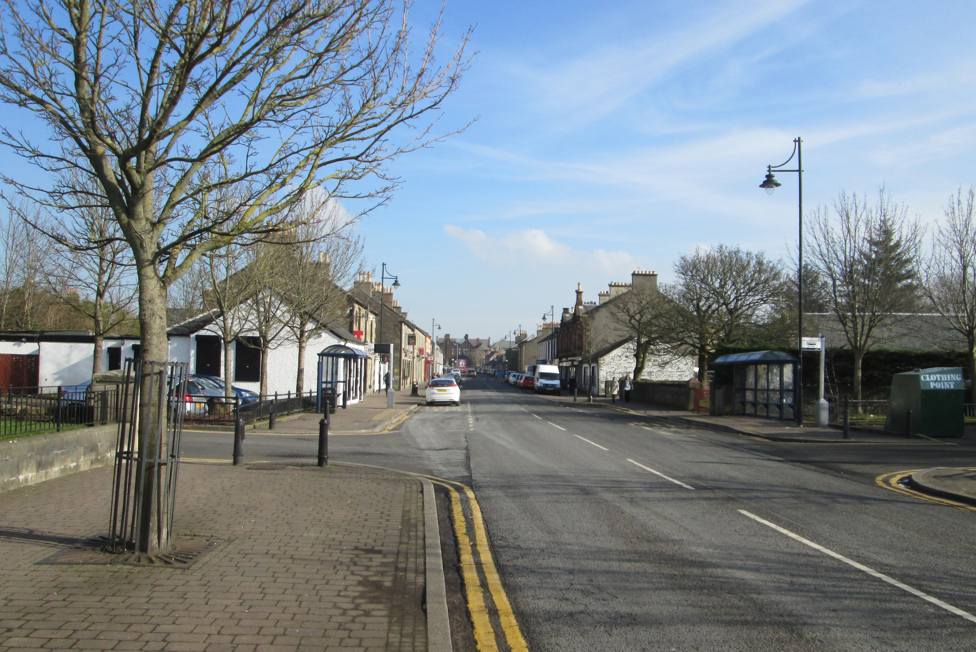 Dreghorn Main Street, looking east from Dreghorn and Springside Parish Church and the B7081 crossroads